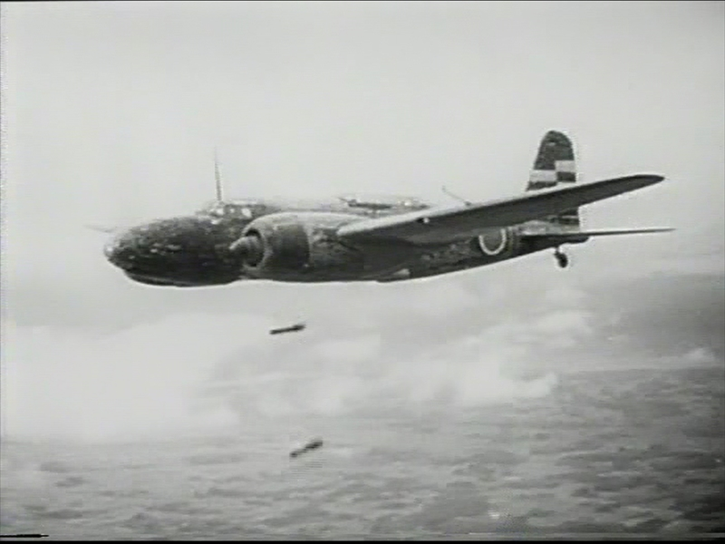 Mitsubishi Ki-21, Air Raid Scene from "Kato hayabusa sento-tai (Colonel Kato's Falcon Squadron)".